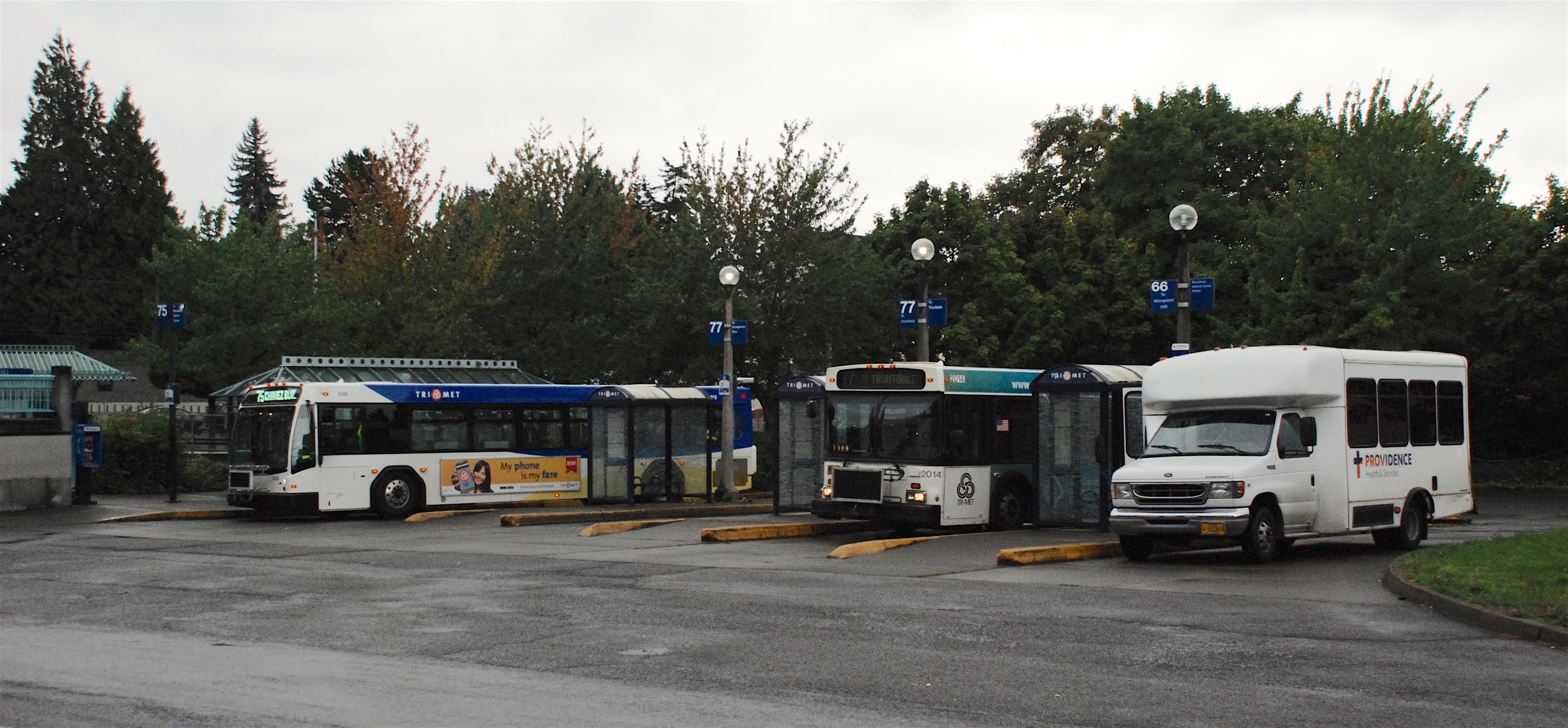 The main bus area of TriMet's Hollywood Transit Center, with two TriMet buses (on route 75 and 77) and a shuttle van providing service to Providence Medical Center.